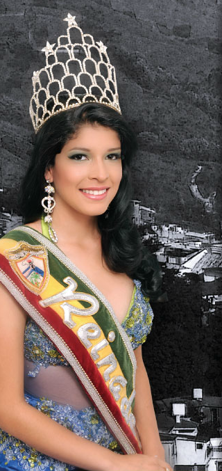 Queen of Piñas